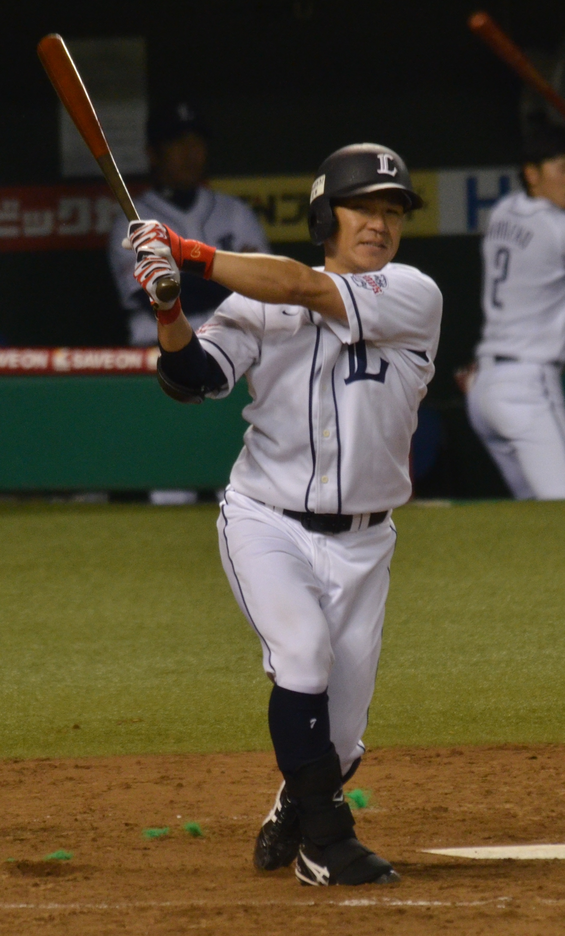 Ryota Wakiya, infielder of the Saitama Seibu Lions, at Seibu Dome.